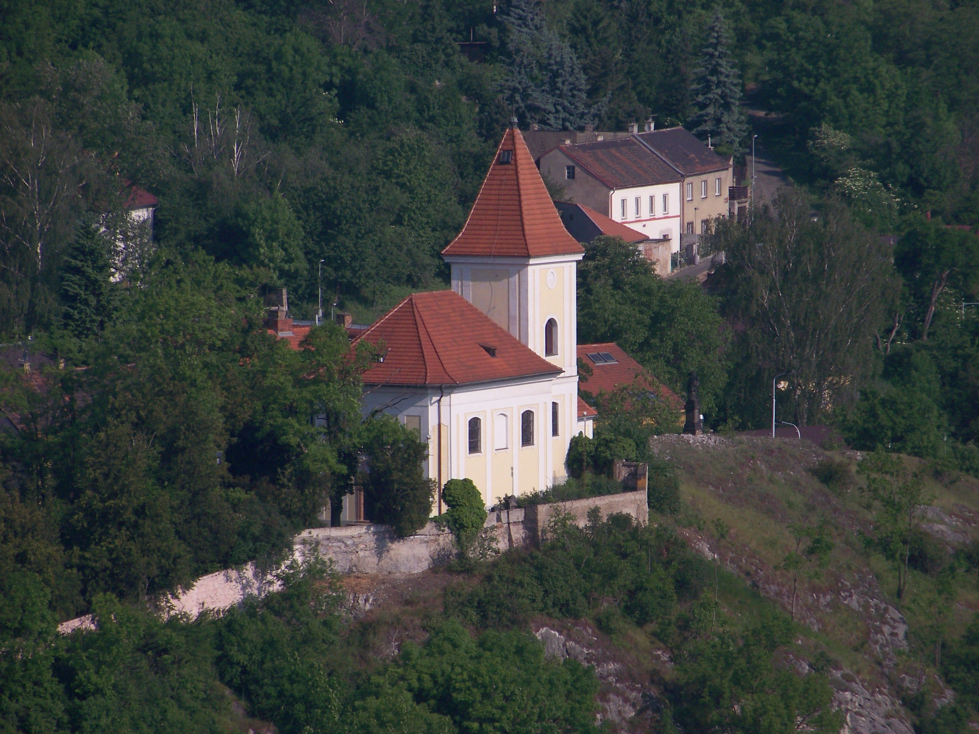 A view from Dobeška hill (Prague-Braník, the Czech Republic). A view of Saint Philip and James church in Zlíchov. - OpenStreetMap(Info)